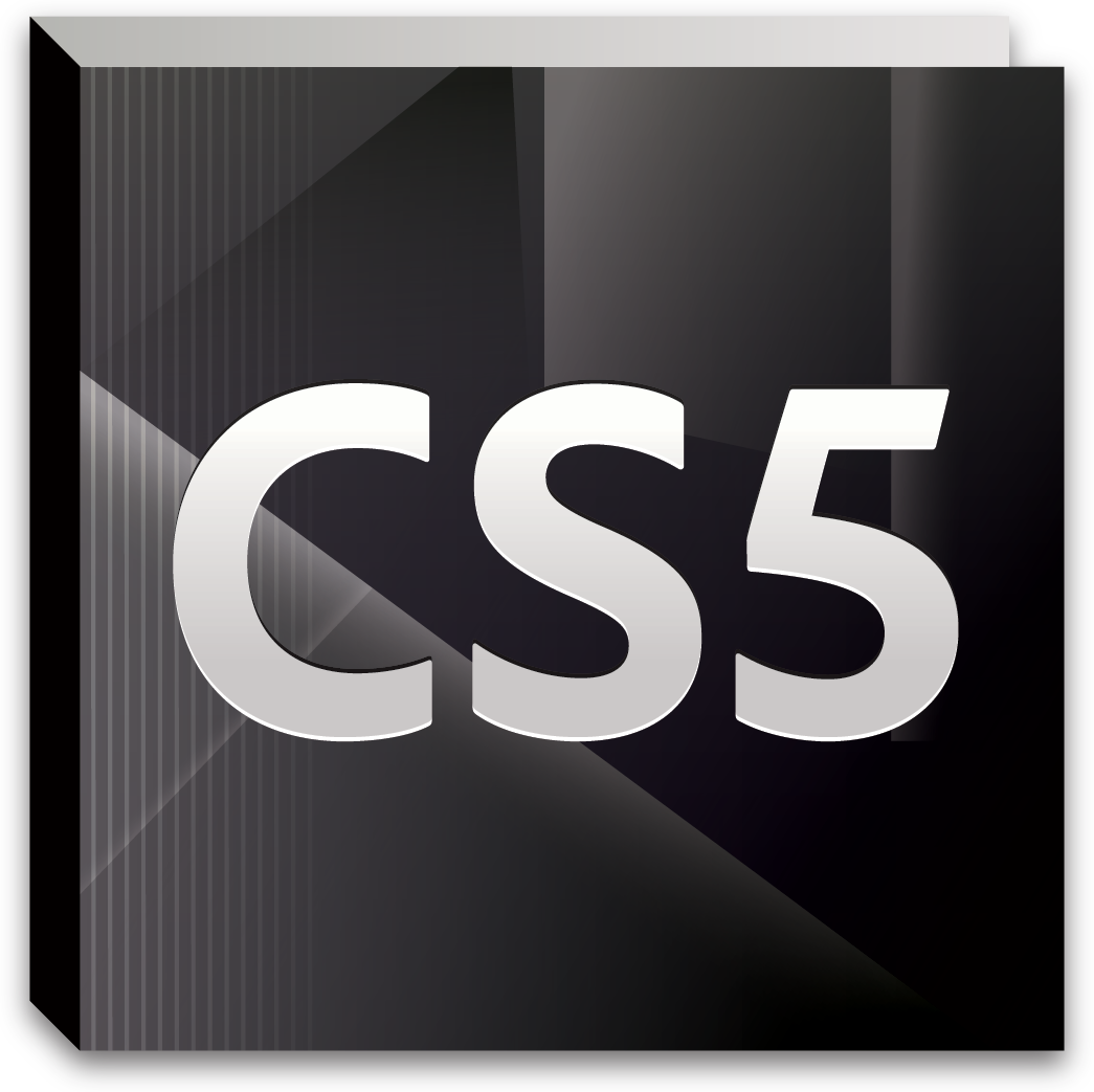 Adobe CS5 icon.Don't delete,we will see that background is okay enough because we can see that background is only lines which is simple enough.This file will be 511 KB,That means this file is more larger than others.